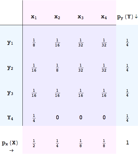 Joint and marginal distributions of a pair of discrete, random variables X,Y having nonzero mutual information I(X; Y)